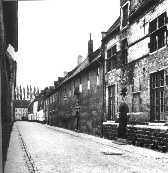 This is an image of the historic beguinage of Diest, Belgium. Engelen Conventstraat, looking south.